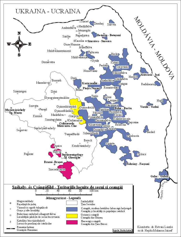 Map of Csango distribution in Bukovina and Moldova